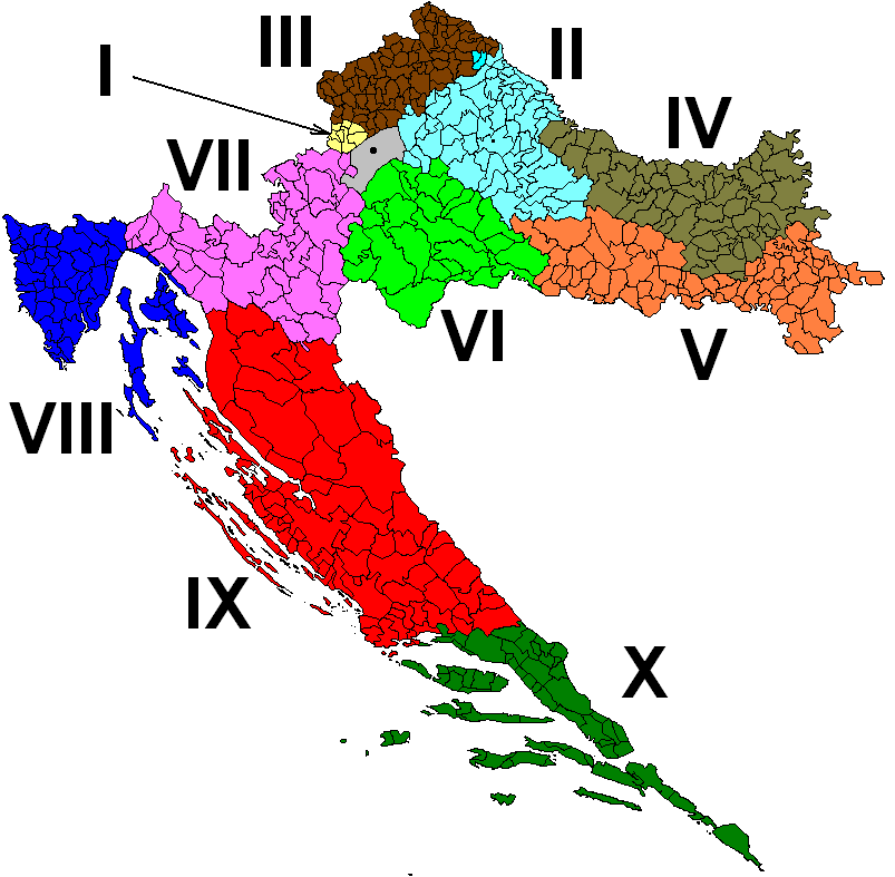 Electoral districts in Croatia, according to the 1999 Law